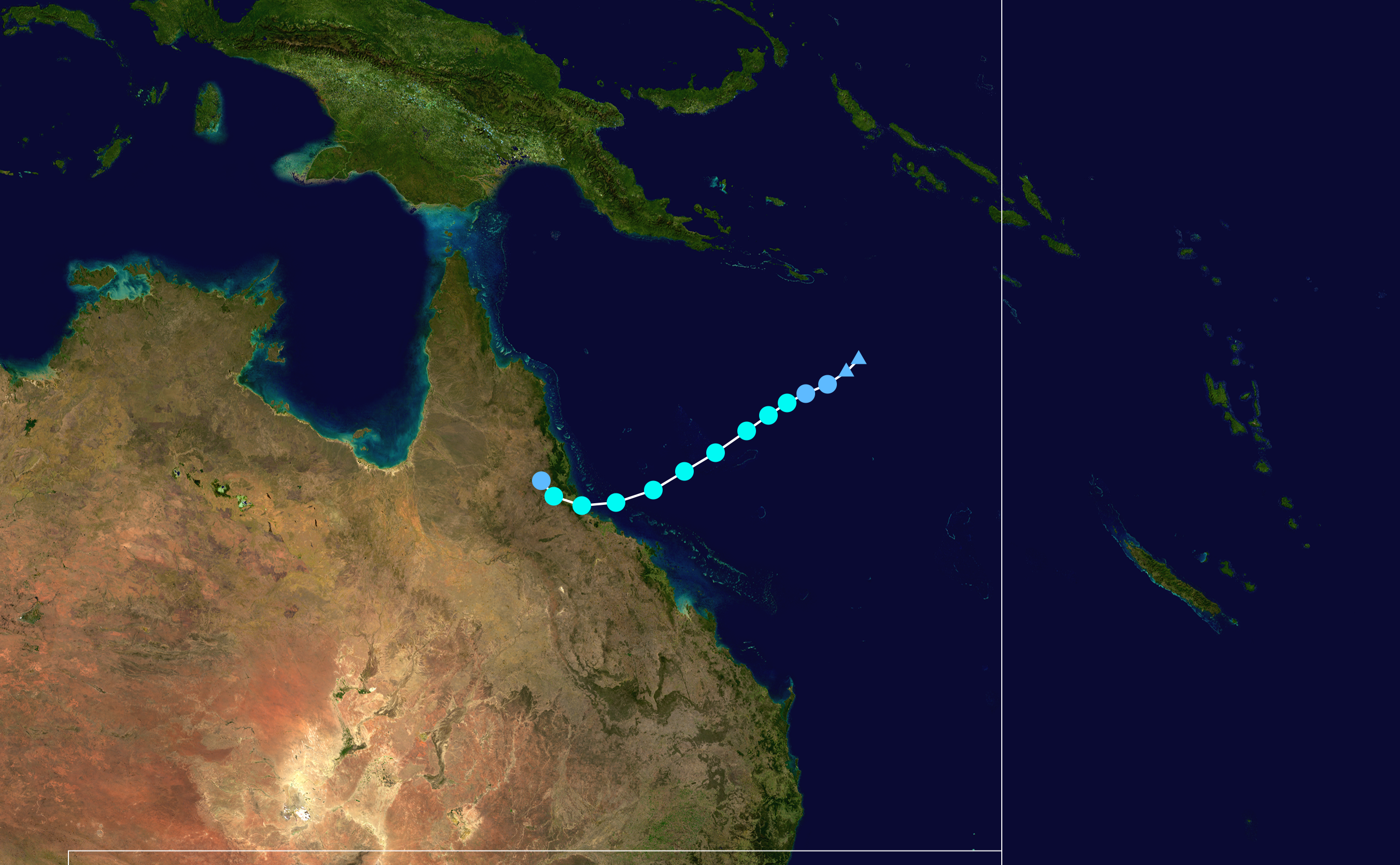 Track map of Severe Tropical Cyclone Tessi of the 1999-00 Australian region cyclone season. The points show the location of the storm at 6-hour intervals. The colour represents the storm's maximum sustained wind speeds as classified in the Saffir–Simpson scale (see below), and the shape of the data points represent the nature of the storm, according to the legend below. Saffir–Simpson scale Tropical depression≤38 mph≤62 km/h Category 3111–129 mph178–208 km/h Tropical storm39–73 mph63–118 km/h Category 4130–156 mph209–251 km/h Category 174–95 mph119–153 km/h Category 5≥157 mph≥252 km/h Category 296–110 mph154–177 km/h Unknown Storm type Tropical cyclone Subtropical cyclone Extratropical cyclone / Remnant low / Tropical disturbance